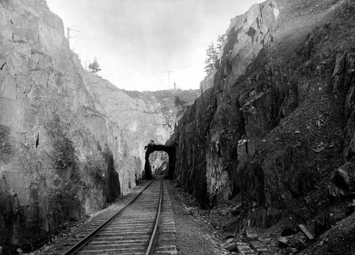 Alaska Central Railroad Tunnel Number 1, north of Seward, Alaska. Now located within Chugach National Forest, this tunnel was taken out of service in the 1950s.